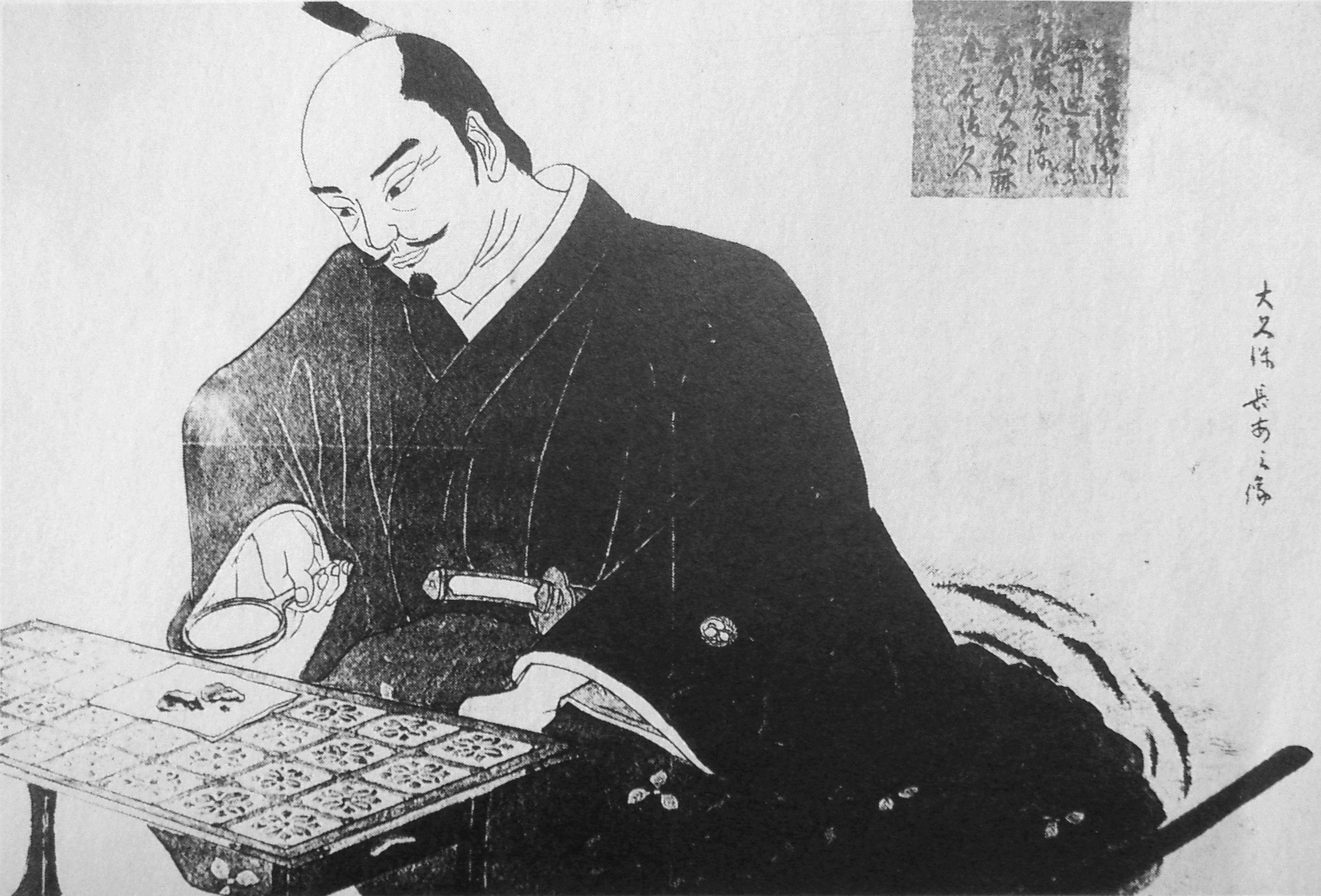 Okubo_Kinzan_Bugyo